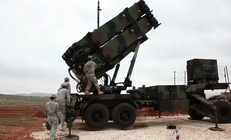 A US Patriot Missiles near Gaziantep, Turkey.